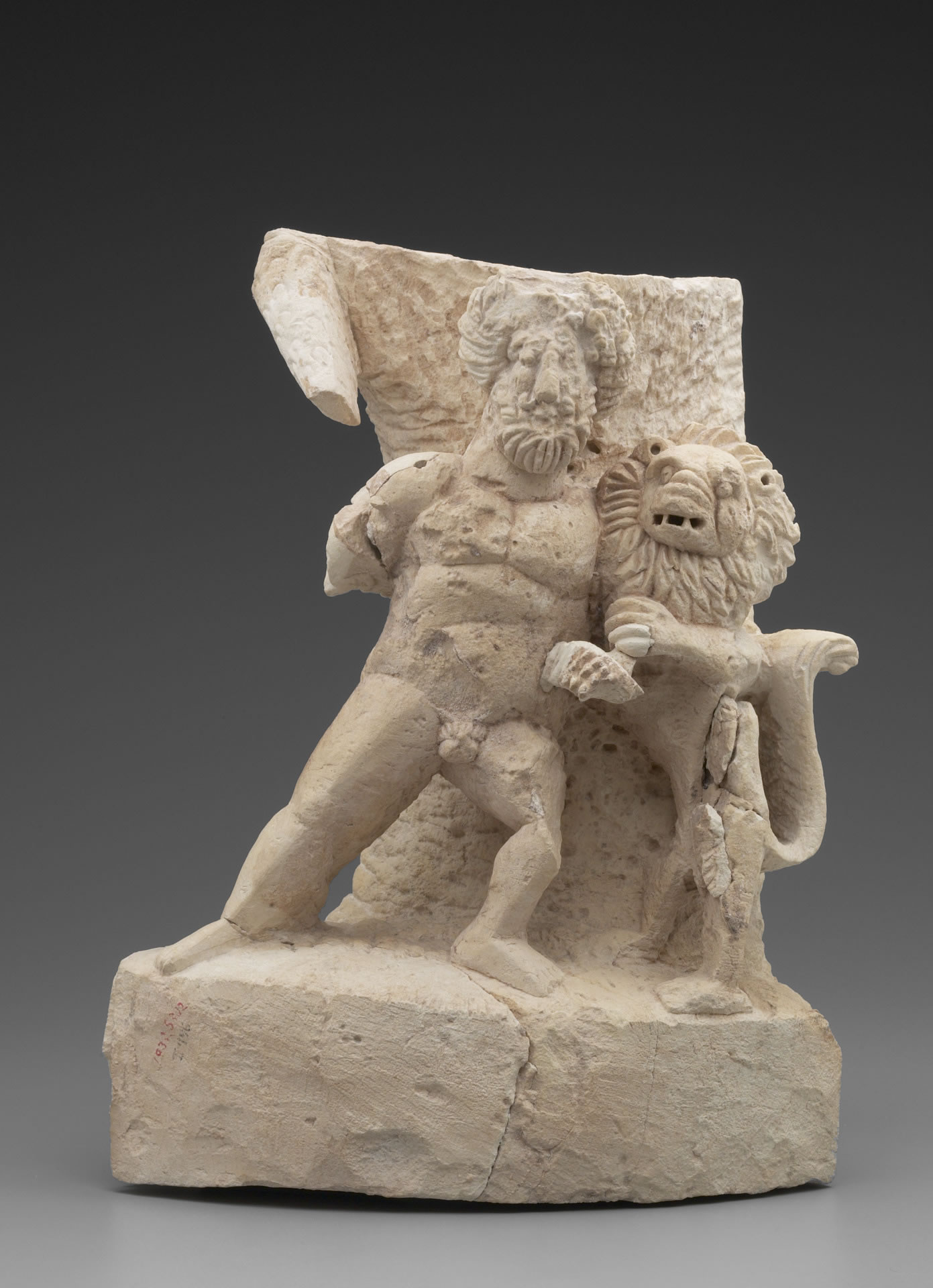 statue of Herakles, Yale 1938.5302